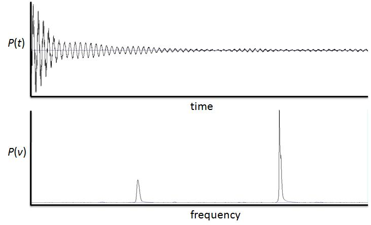 A time-domain interferogram and its corresponding frequency domain plot.